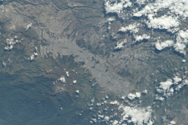 Astronaut Photo of Quito, Ecuador taken from the International Space Station (ISS) during Expedition 28 on September 5, 2011.